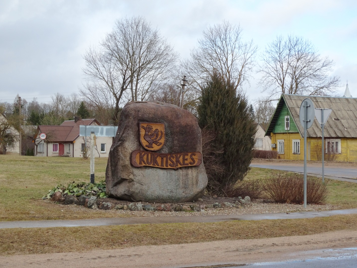 Stone with the town coat of arms, Kuktiškės, Utena district, Lithuania